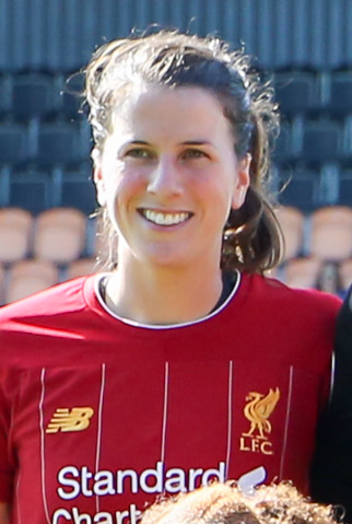 2019–20 FA WSL: Tottenham Hotspur FC Women v Liverpool FC Women, 15 September 2019 – Liverpool starting line-up.